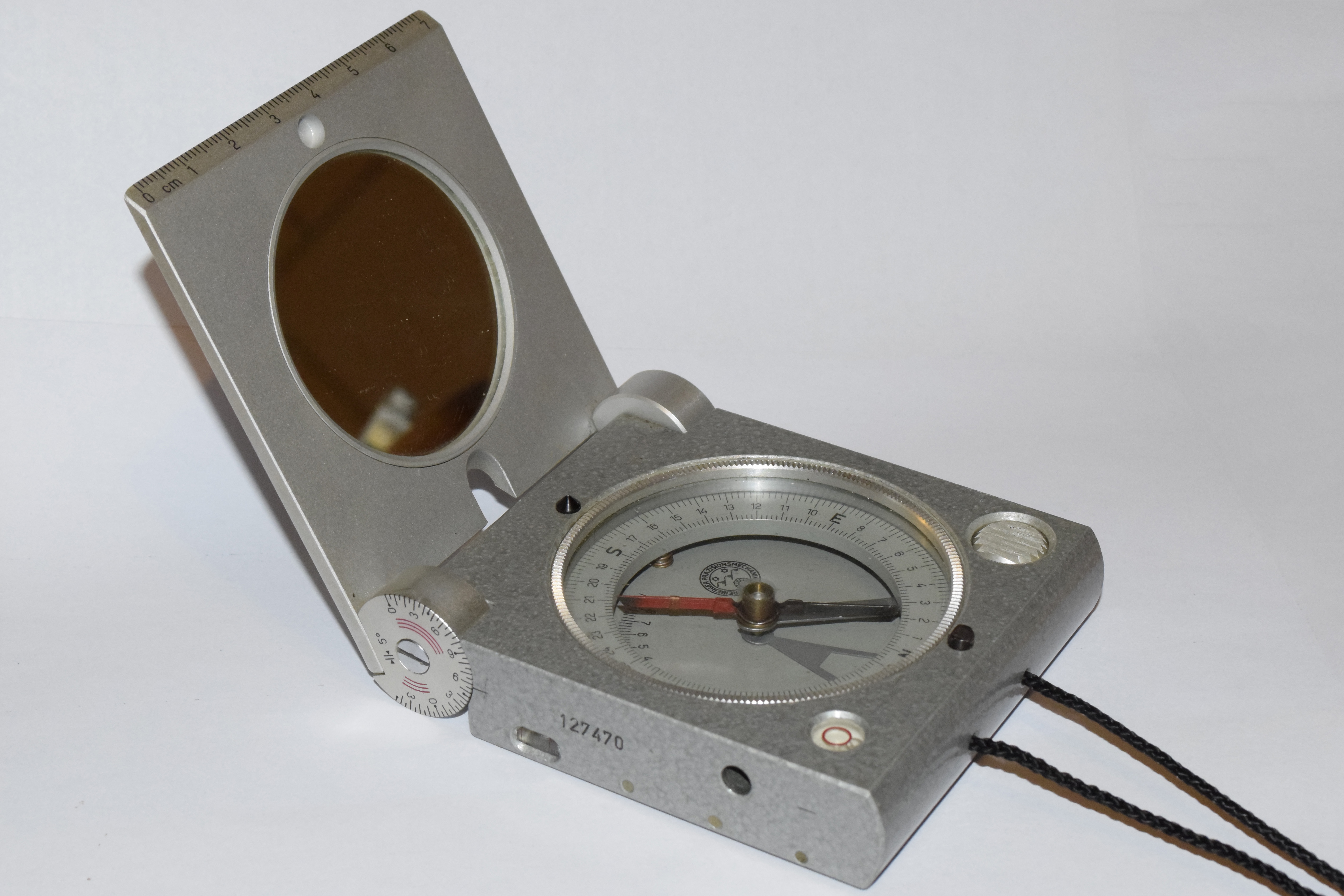 Geological compass by FPM, Freiberg, Saxony, Germany.